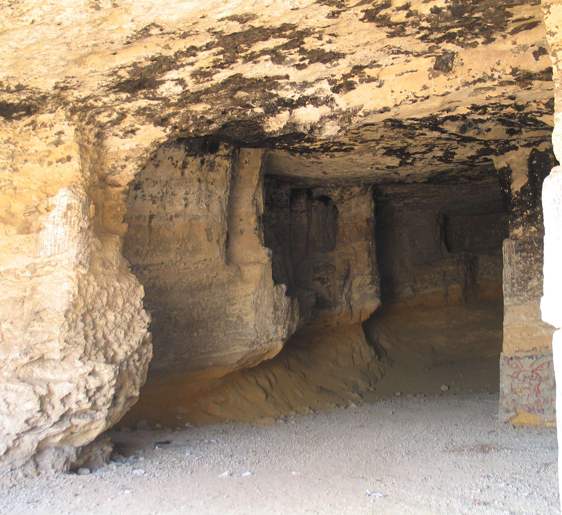 Patish cave, Ofakim, Israel.